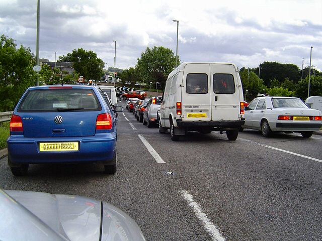 Penn Inn roundabout - South Devon. Penn Inn is a major roundabout on the main Exeter to Torquay road. This is where the Torquay road becomes a slow one lane road through Kingskerswell. Penn Inn is also a well used junction for Newton Abbot.